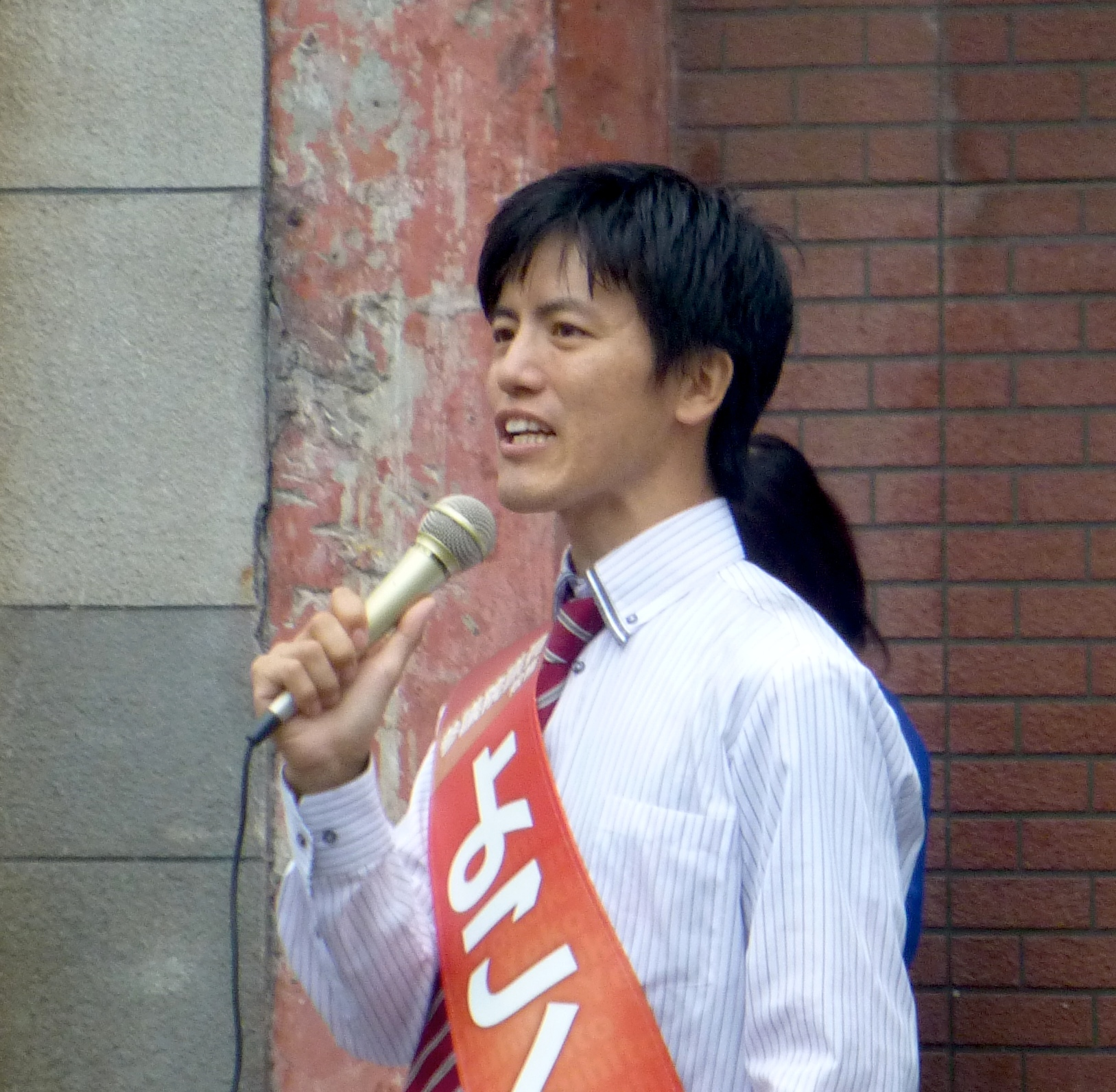 Democratic Party of Japan politician Katsuhito Yokokume campaigning in Shimbashi, Tokyo